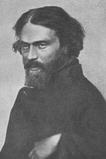 Daguerrotype of Cyprian Kamil Norwid